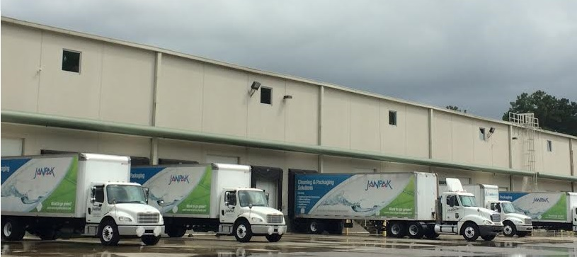 JanPak distribution center